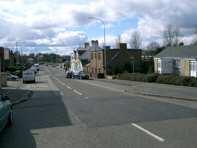 Main Street Halbeath. A quieter place now since a bypass has been built.